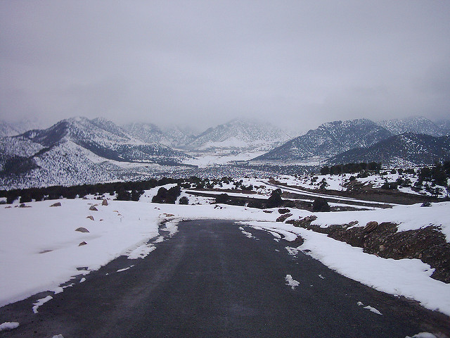 Taken in Ali Mangal Post Aread